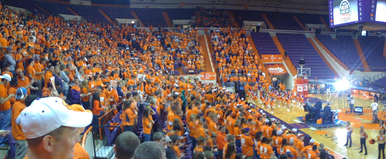 College GameDay broadcast at Clemson - January 24, 2010